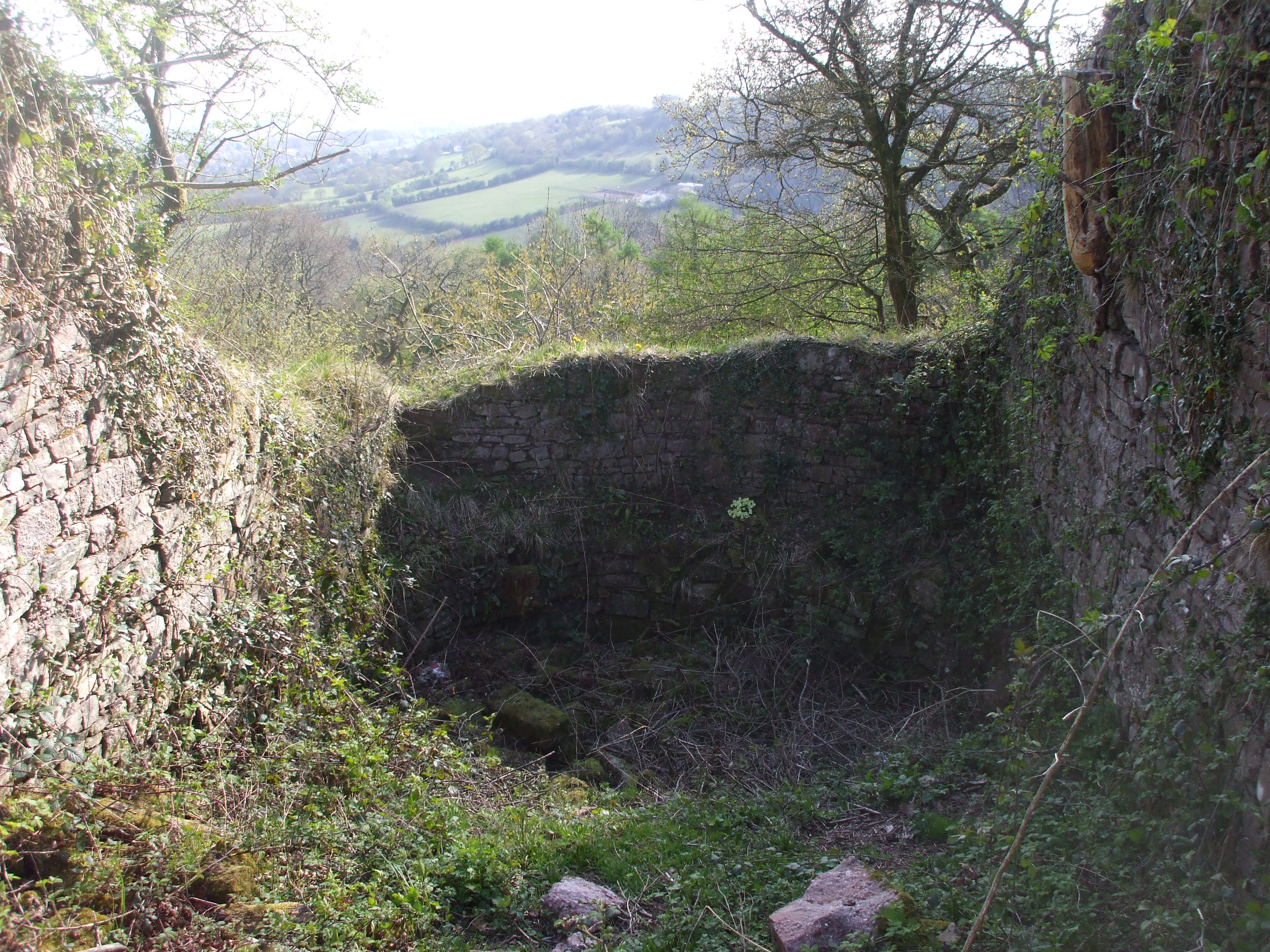 Ruins of the south-facing rectangular tower of Castell Morgraig on Graig Llanishen. Caerphilly, Wales